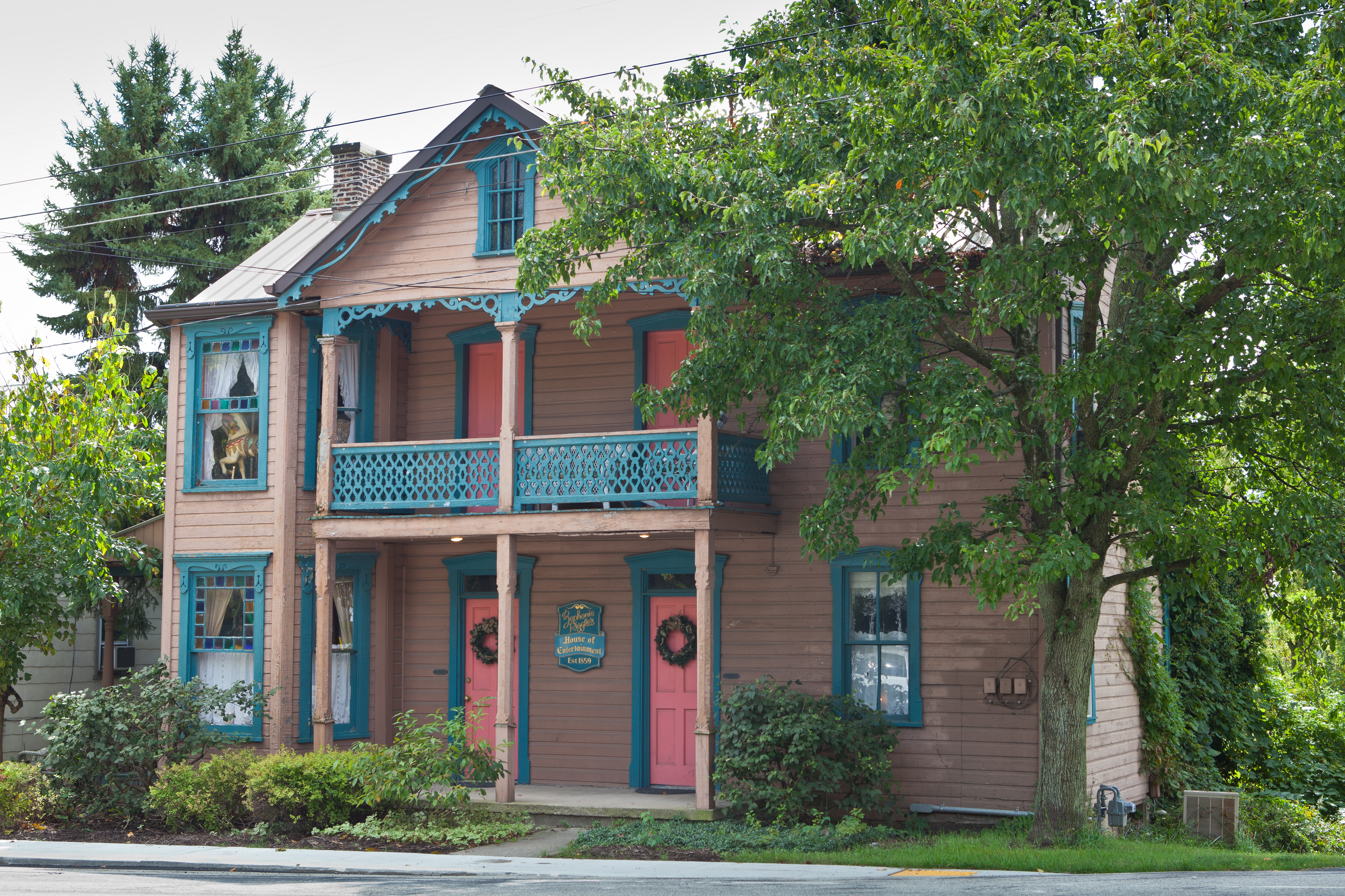 Scenery Hill Pennsylvania Historic District. Zephanie Riggles House of Entertainment, a former bordello.